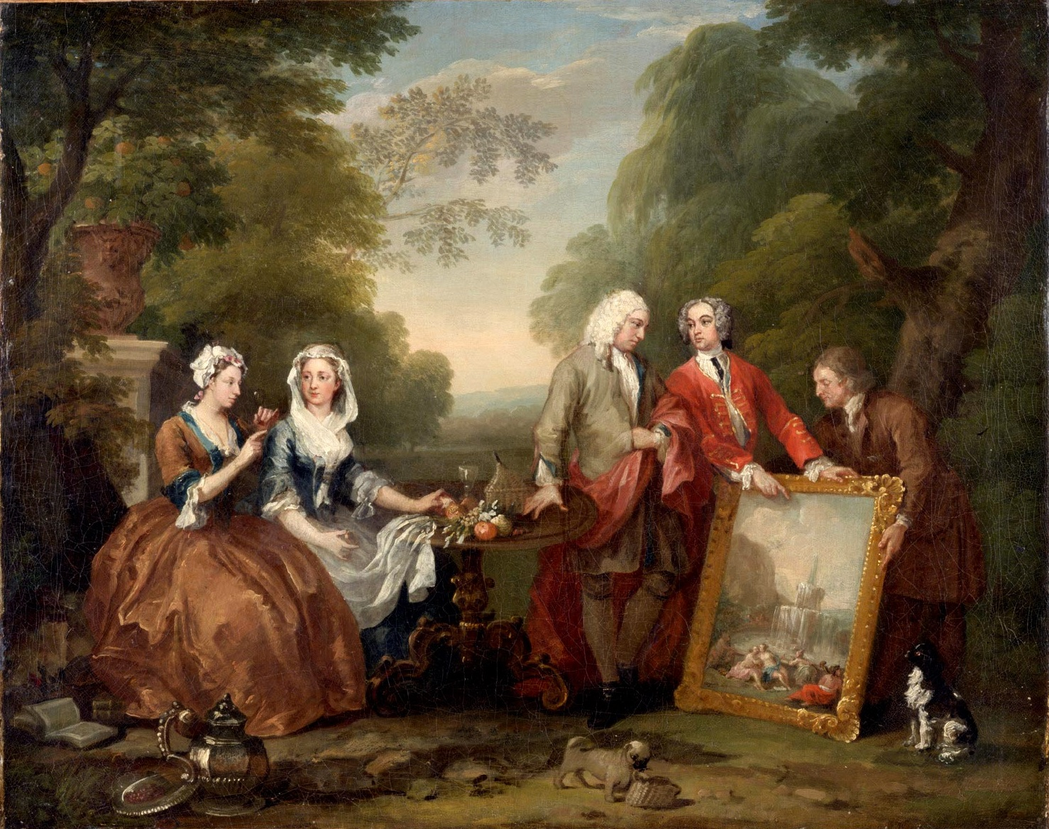 Andrew Fountaine (1676-1753)